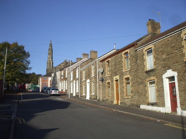 Crown St, Morriston Capel y Tabernacl can be seen at the far end of the street